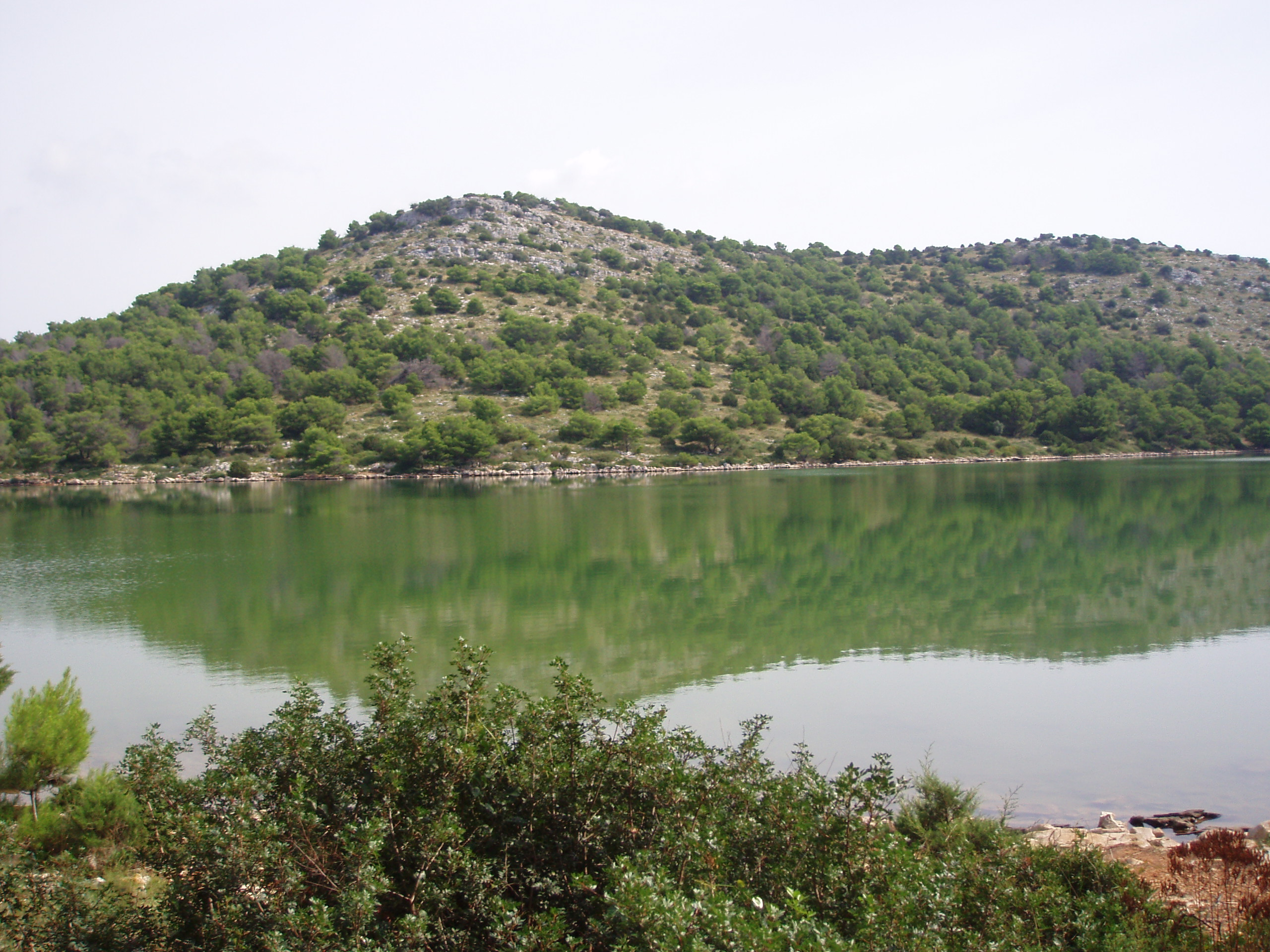 The salt lake - Dugi Otok - Croatia